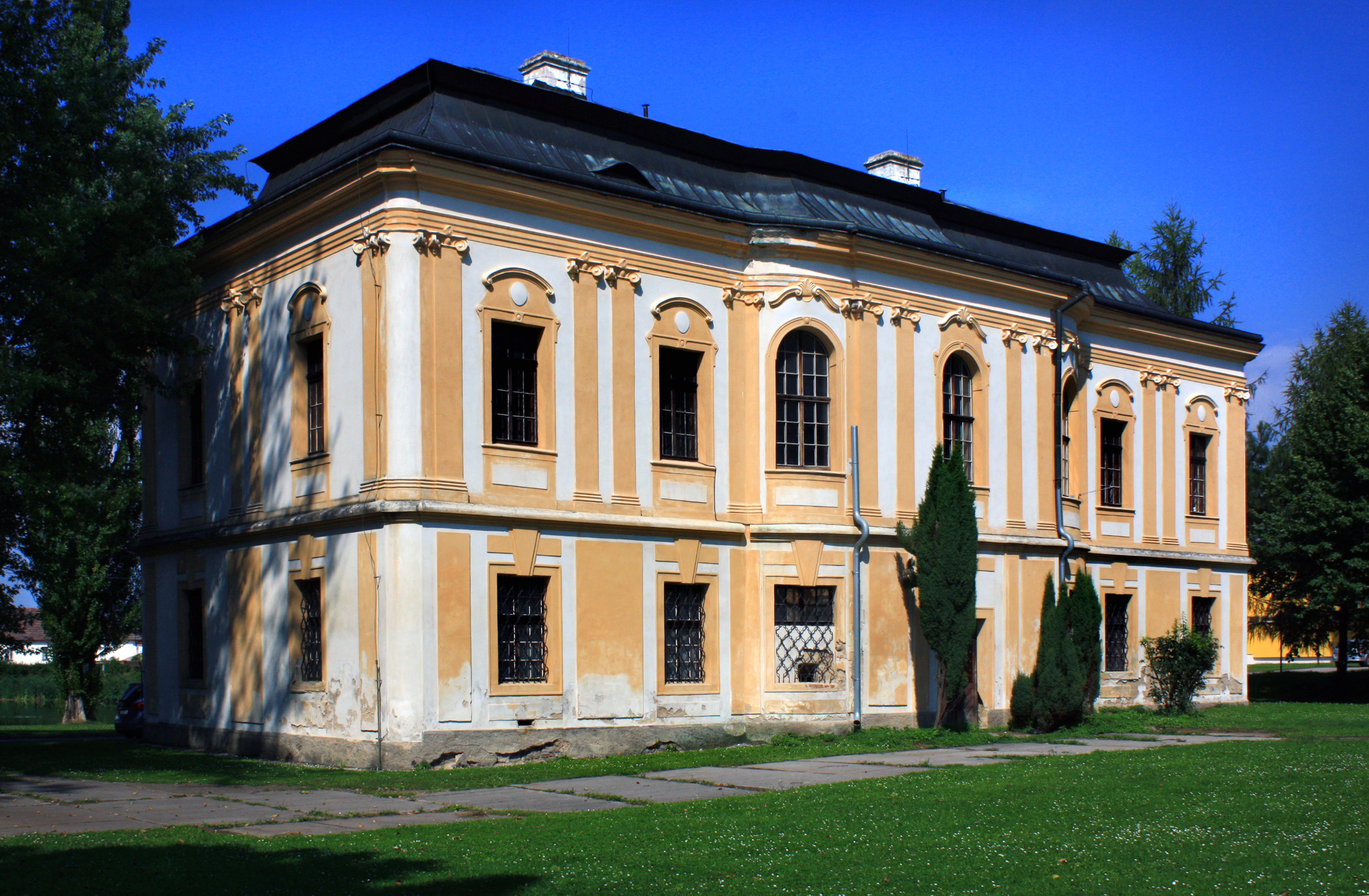 Rectory in Bezno, Czech Republic